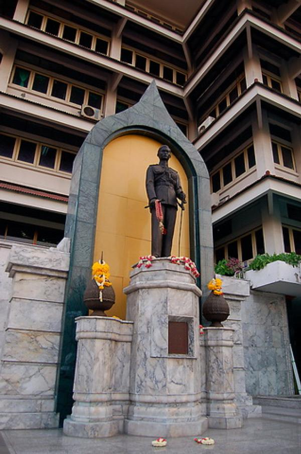 The King Rama 8 of Thailand.